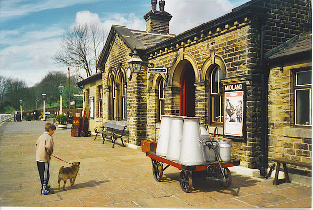 Oakworth Station Oakworth Station is on the Keighley and Worth Valley Railway, which is a five-mile (eight-km) long heritage railway line in West Yorkshire, England, that runs from Keighley to Oxenhope. Milk churns on a hand cart and an old Midland Railway poster bring back images of a former age.